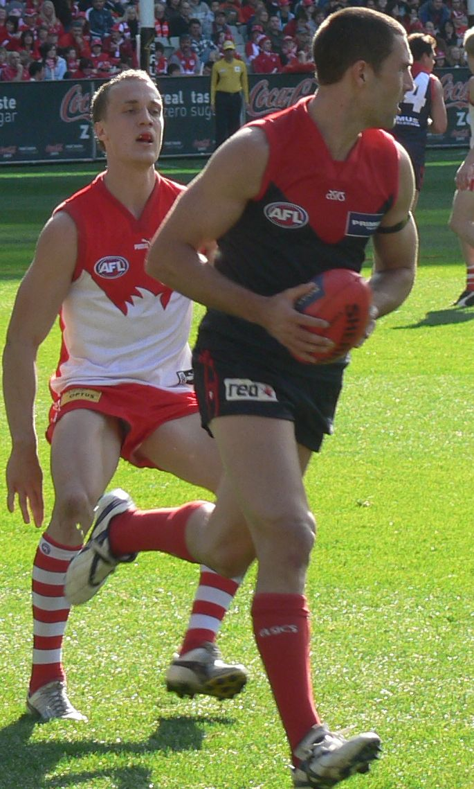 I created this image --Rulesfan 01:27, 2 August 2007 (UTC) Summary Brad Miller whilst playing for the Melbourne Demons.